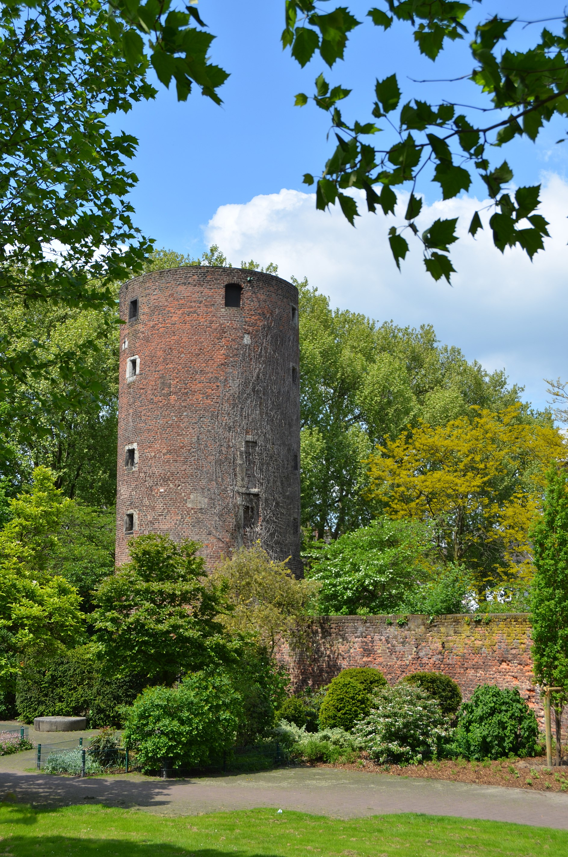 Krefeld (North Rhine-Westphalia, Germany) – district Uerdingen – city wall – tower Eulenturm This image shows a heritage building in Germany, located in the North Rhine-Westphalian city Krefeld (no. 27). This photograph was taken with a Nikon D7000